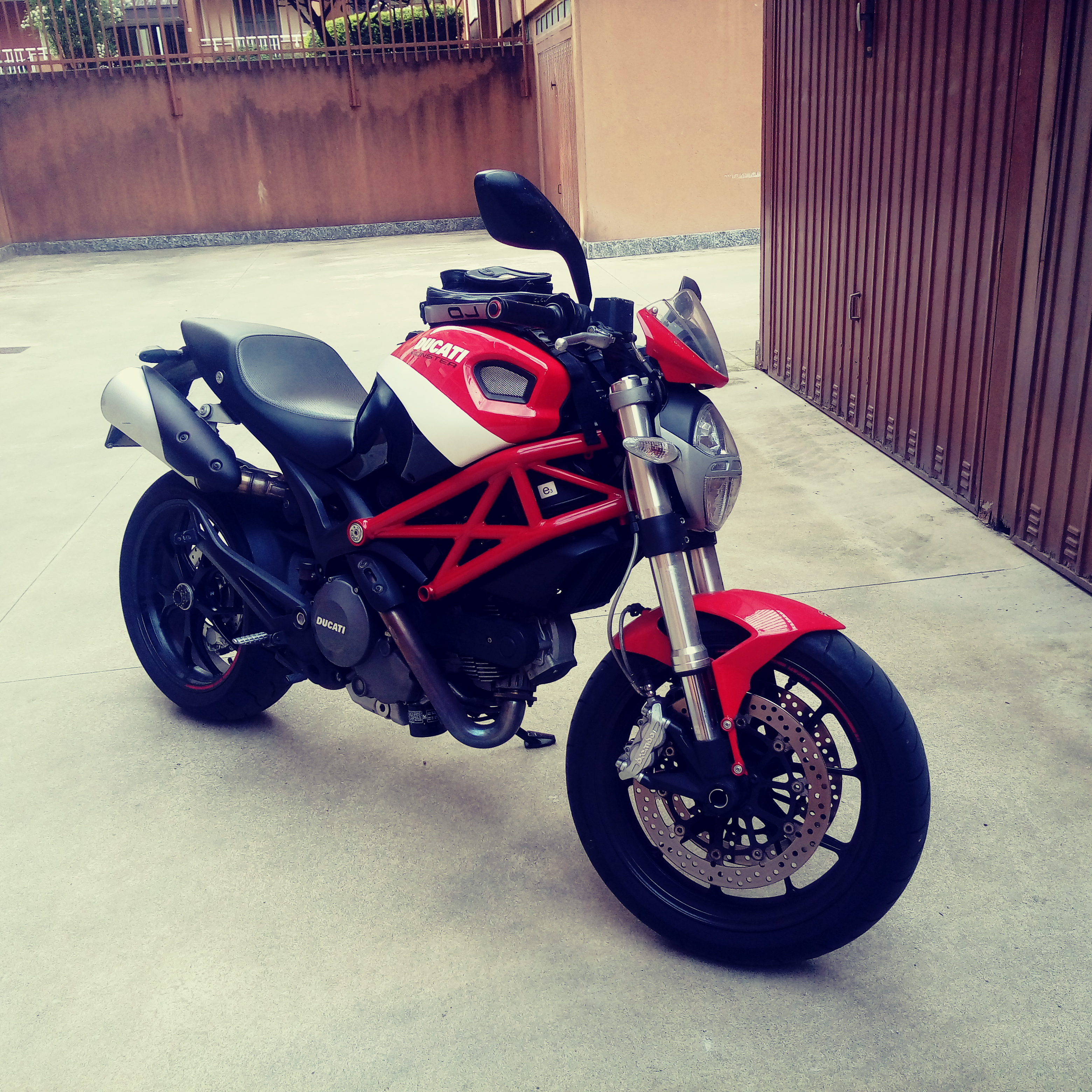 Ducati Monster 796